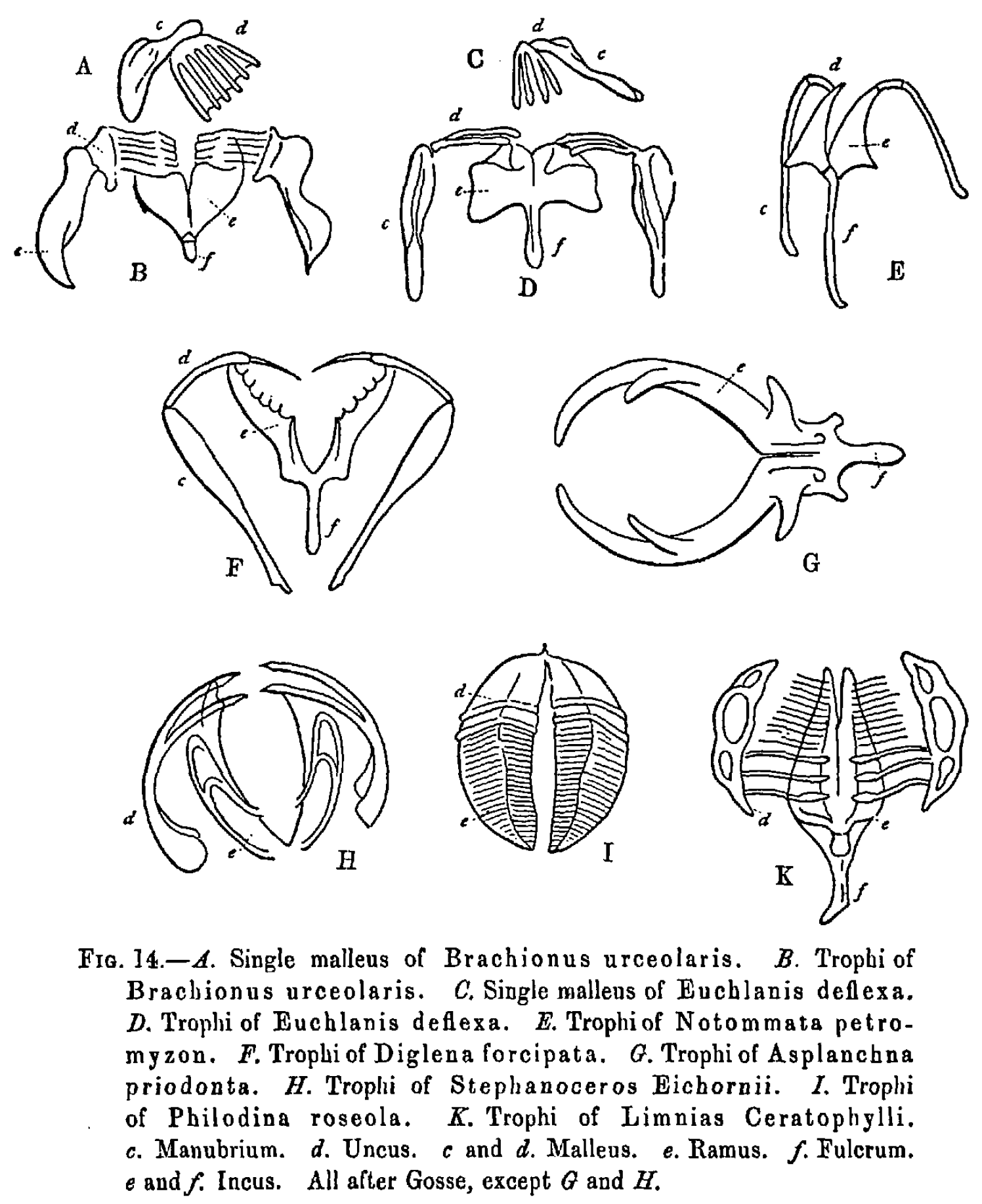 Various types of the trophi of rotifers. A. Single malleus of Brachionus urceolaris. B. Trophi of Brachionus urceolaris. C. Single malleus of Euchlanis deflexa. D. Trophi of Euchlanis deflexa. E. Trophi of Notommata petromyzon. F. Trophi of Diglena forcipata. G. Trophi of Asplanchna priodonta. H. Trophi of Stephanoceros Eichornii. I. Trophi of Philodina roseola. K. Trophi of Limnias Ceratophylli. c. manubrium d. uncus c-d. malleus e. ramus f. fulcrum e-f. incus